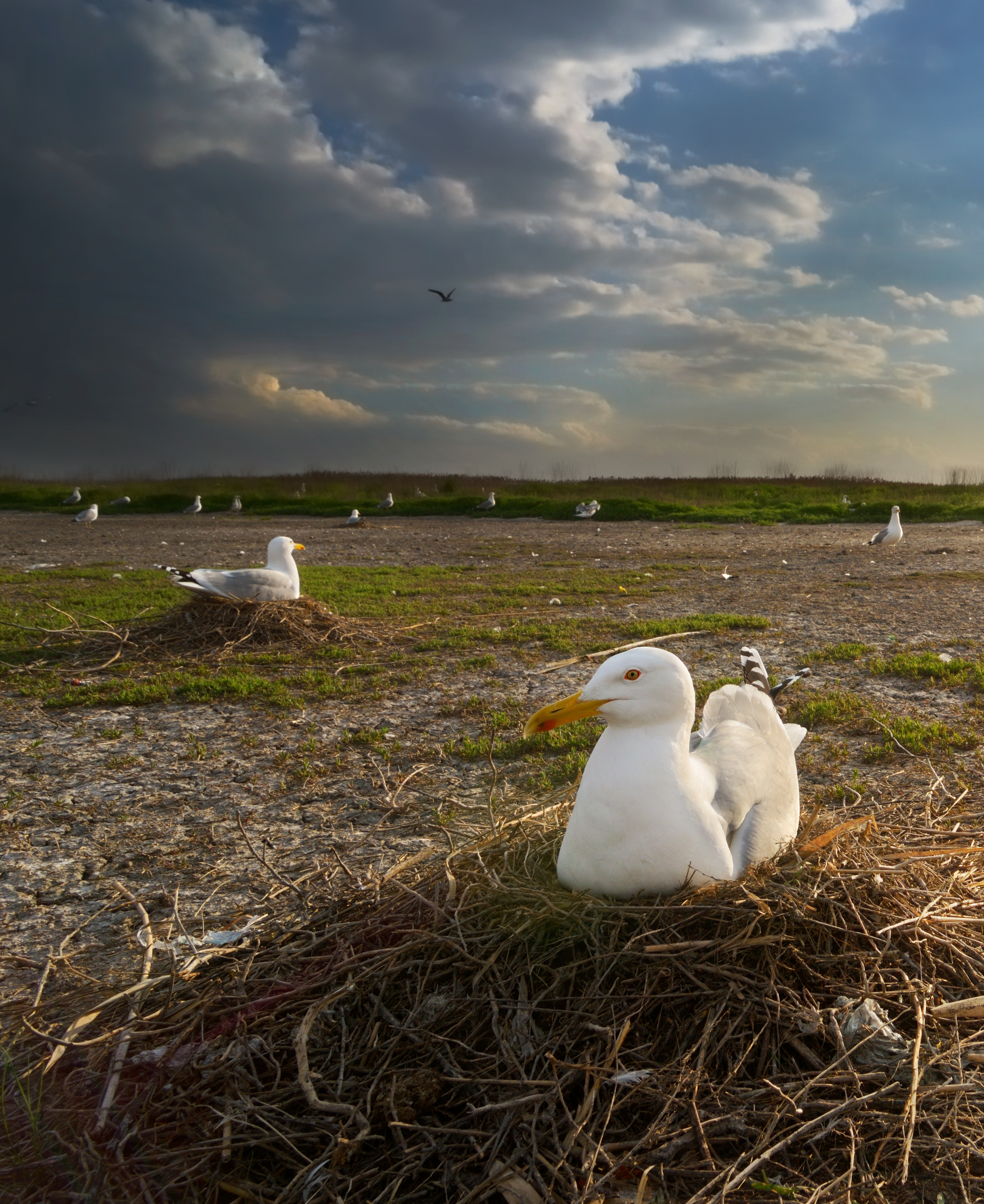 Caspian gull (Larus cachinnans). Landscape Reserve Solonyi Lyman, Dnipropetrovsk Oblast, Ukraine